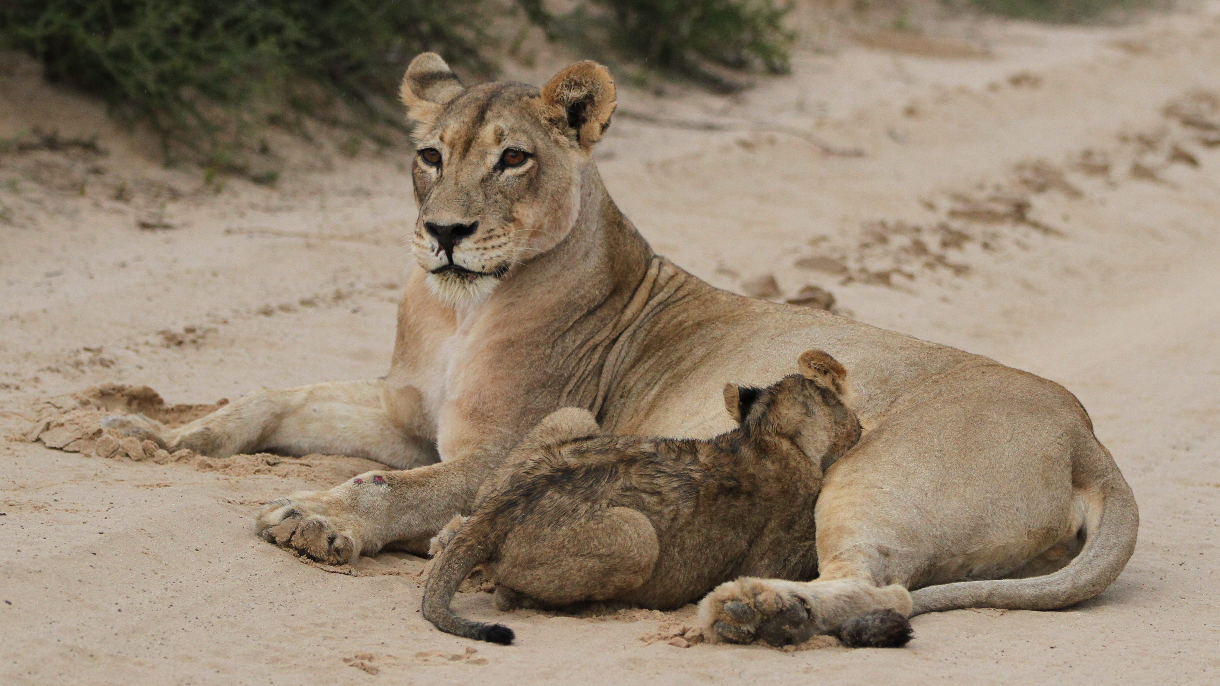 African lion, Panthera leo at Kgalagadi Transfrontier Park, Northern Cape, South Africa